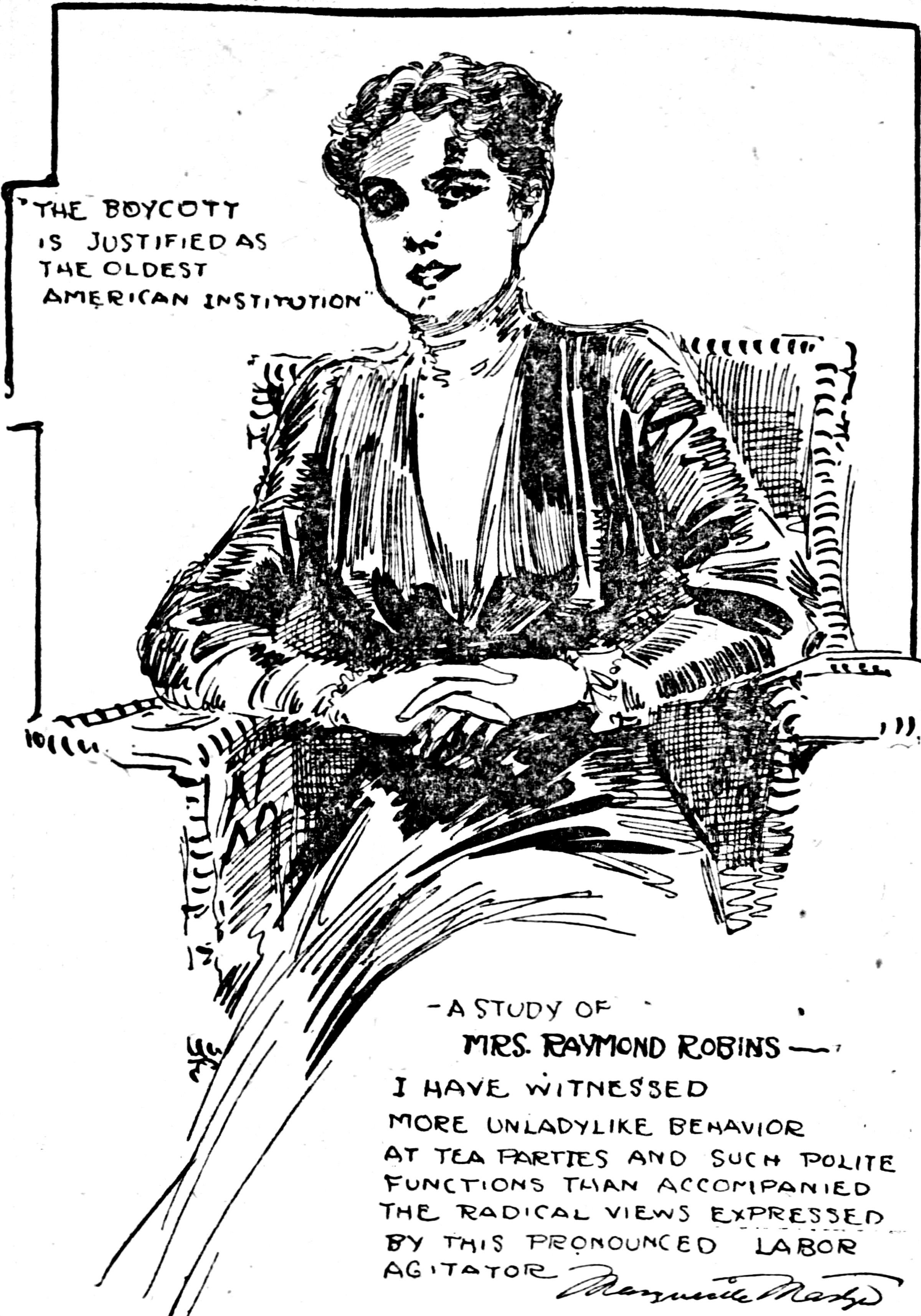 Sketch by Marguerite Martyn of labor leader Margaret Dreier Robins, with a notation by Martyn about her impression of Mrs. Robins, 1910